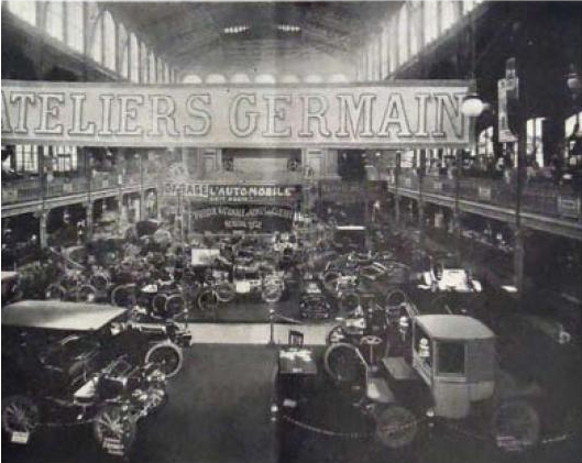 Salon of the Union Auto Véloce in the Pôle Nord (Brussels, 1902)